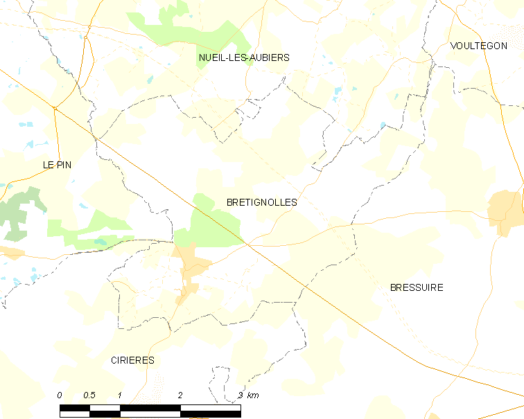 Map of French municipality Bretignolles